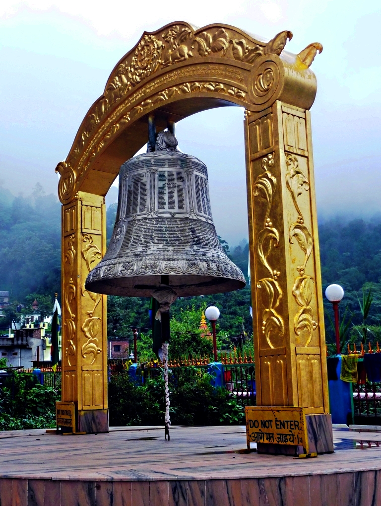 I took this photo while visiting Rewalsar, Himachal Pradesh, India in 2010